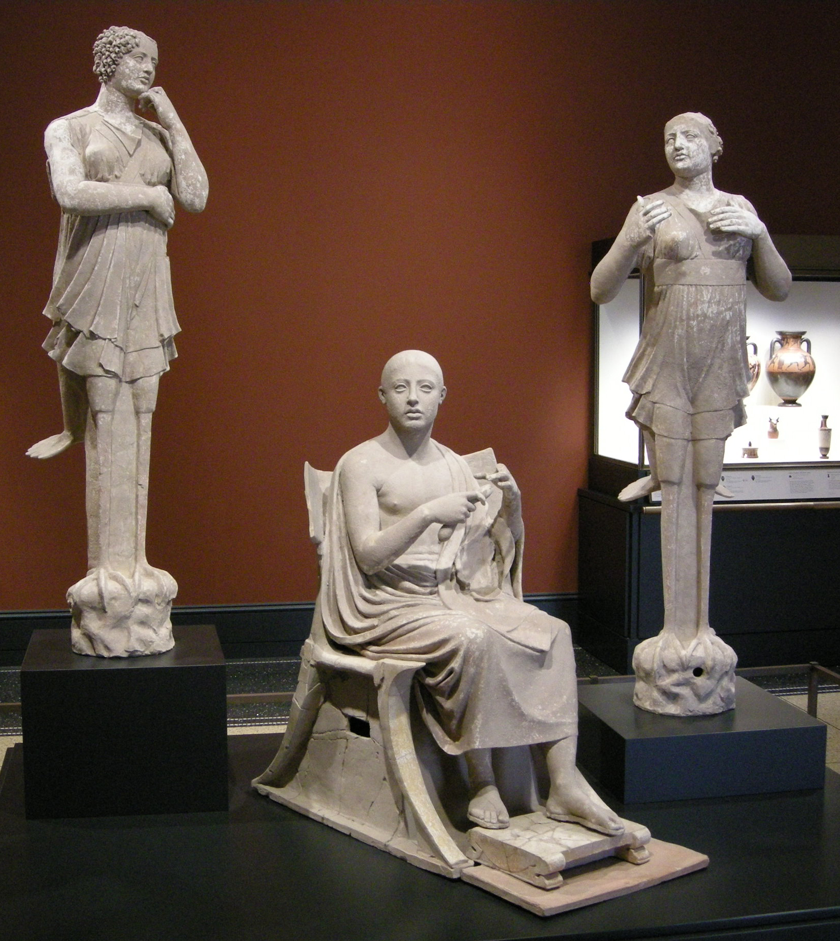 Getty Villa Native nameGetty VillaParent institutionJ. Paul Getty MuseumLocation17985 Pacific Coast HighwayPacific Palisades, California {Postal code } United States of AmericaCoordinates34° 02′ 41.5″ N, 118° 33′ 56.08″ W Established1974Web page control : Q180401 VIAF: 270917417 ULAN: 500125181 OSM: 6180870 BNF: 15839410f BIBSYS: 6047271 institution QS:P195,Q180401